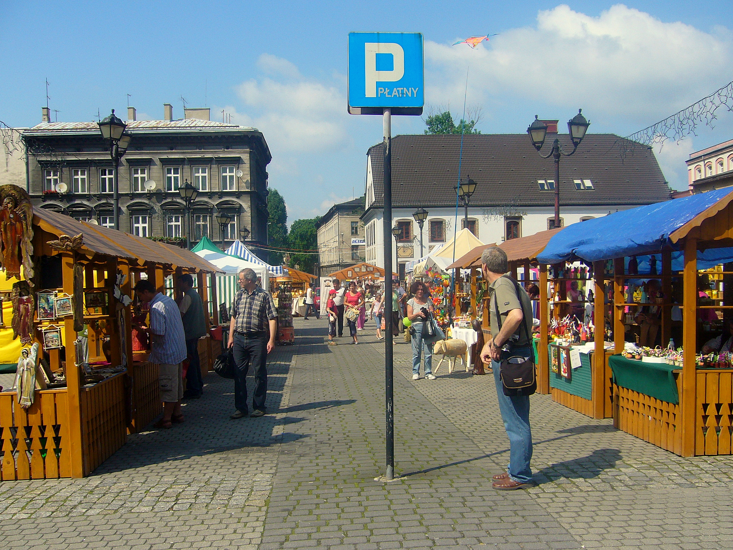 Wolności Square in Bielsko-Biała during Święto Ulicy 11 Listopada 2009 (11 Listopada Street Festival 2009) - Jarmark Galicyjski (Galician Market)